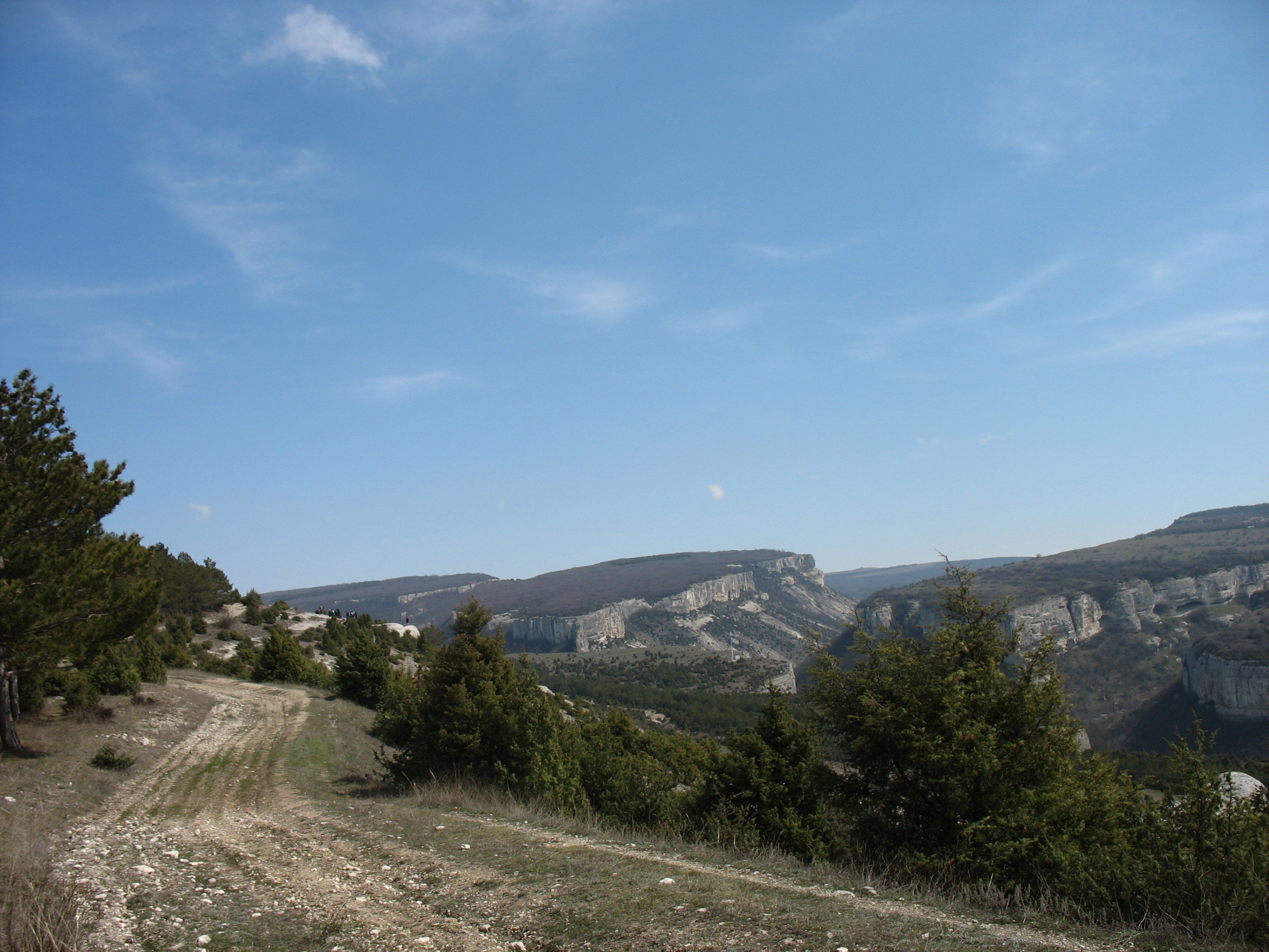 On the slope between the 7th district and the old town (Bakhchisaray)